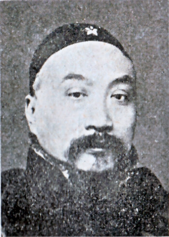 Yuan Naikuan (1867 - 1946?)